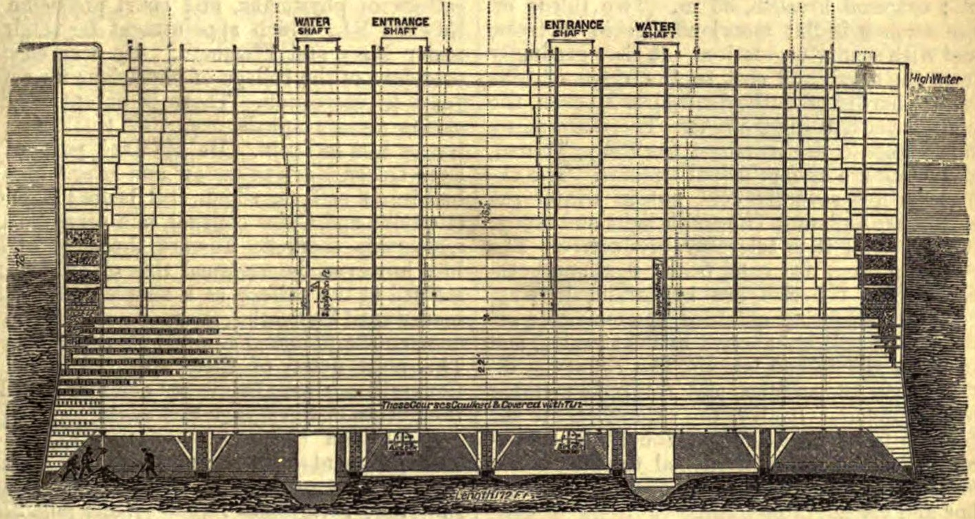 Woodcut/drawing illustrating caisson used by W. A. Roebling in the construction of the Brooklyn Bridge.